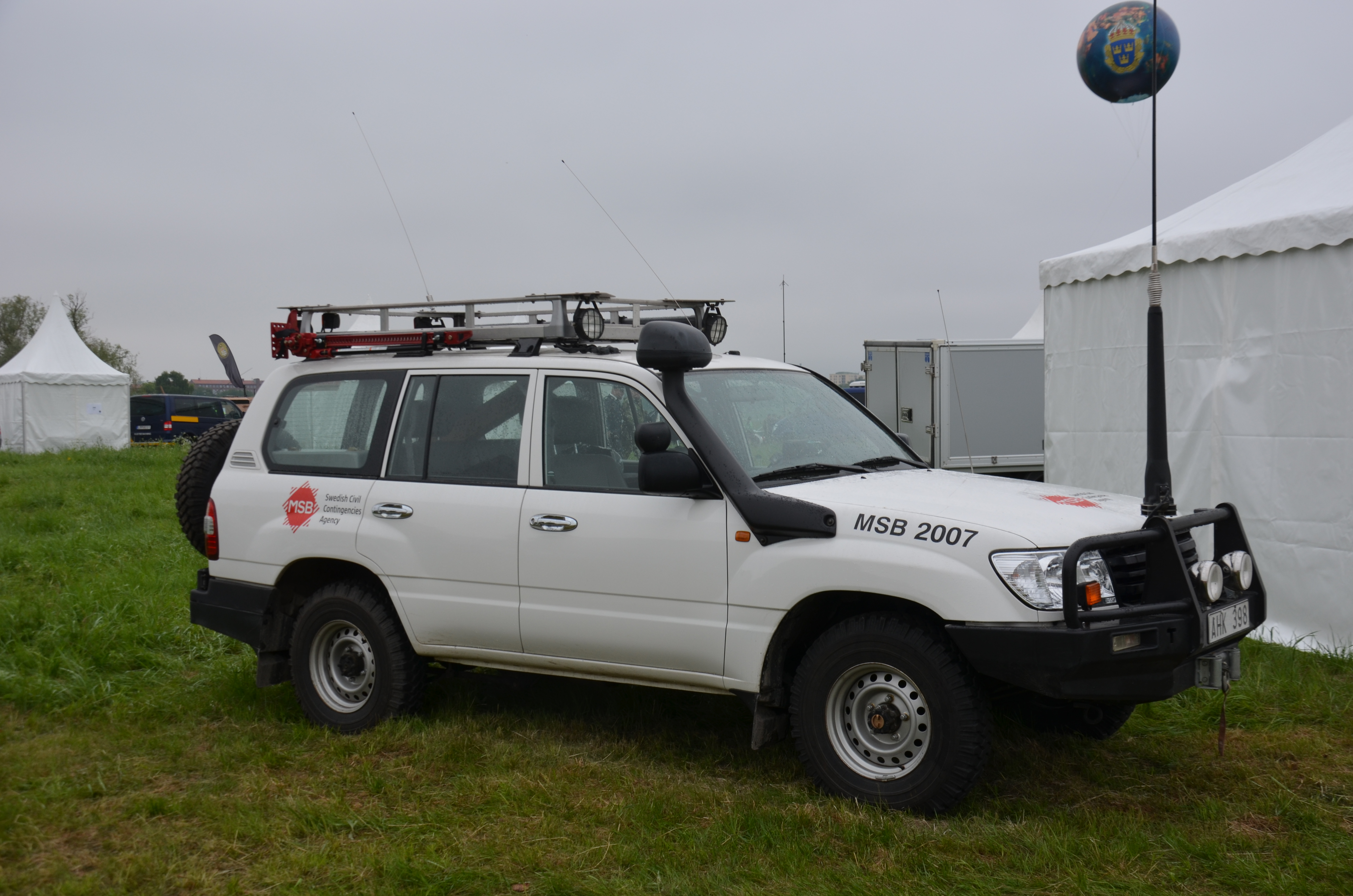 A Toyota Land Cruiser of a fleet of 11 belonging to the Swedish Civil Defence Agency (Myndigheten för samhällsberedskap). Photo from the Veterans' Day, Gärdet, Stockholm, 2013